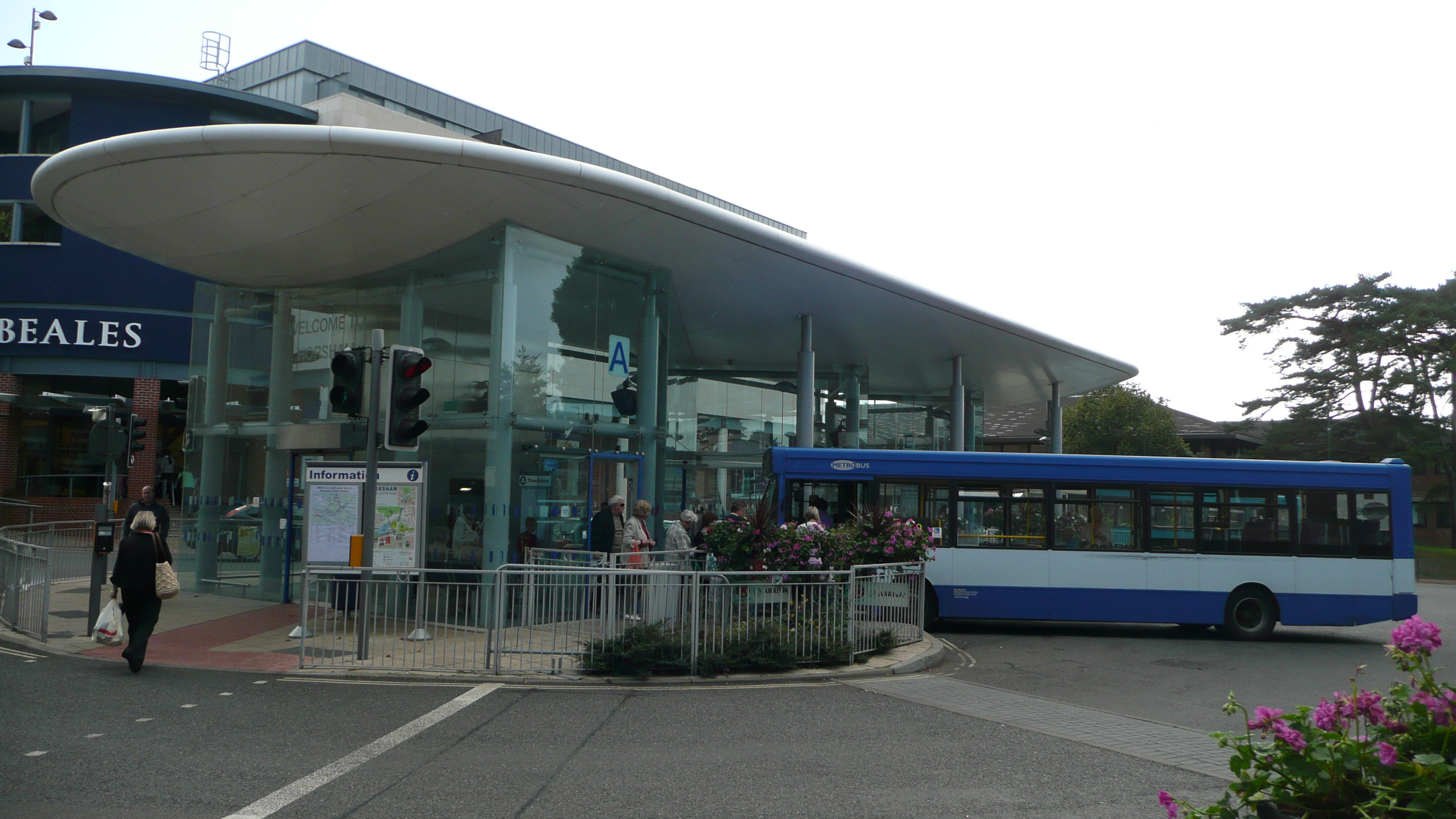 Horsham bus station, Horsham, West Sussex. It is situated at the junction of Worthing Road and Black Horse Way.